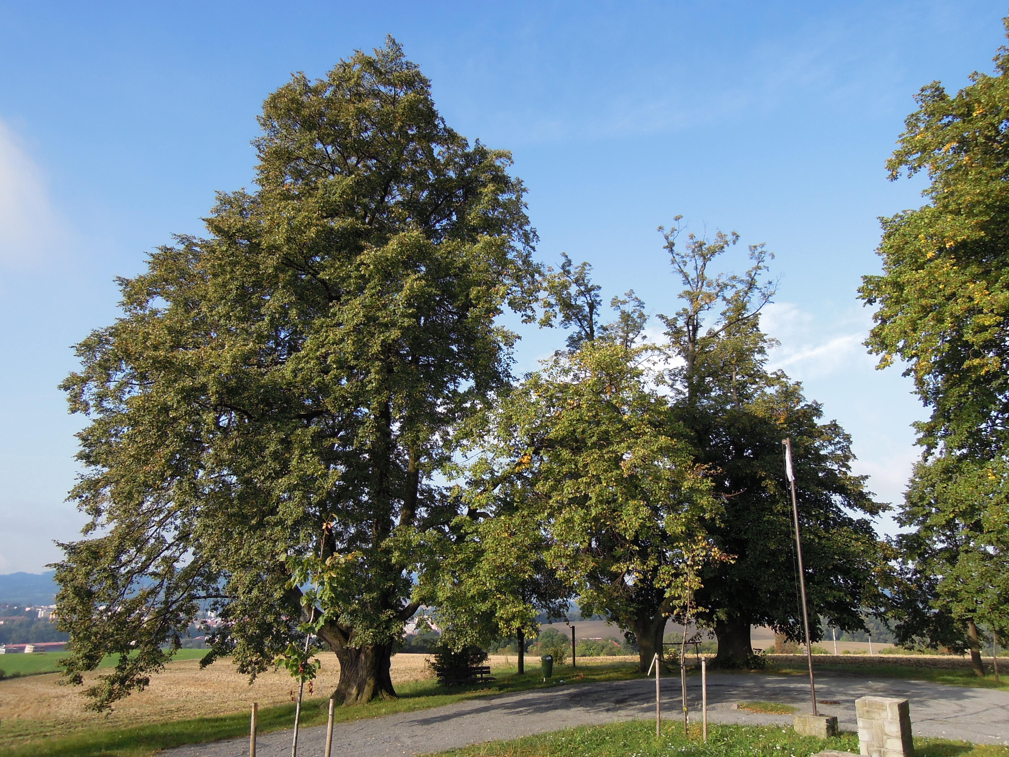 Tilia cordata on a hill Helštýn, Valašské Meziříčí, Zlín Region, Czech Republic